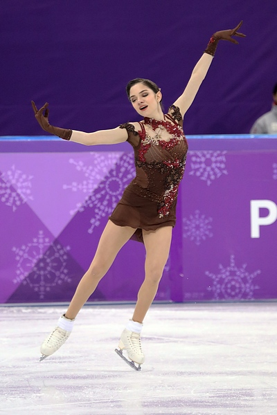 Evgenia Medvedeva at the 2018 Winter Olympic Games - Free program